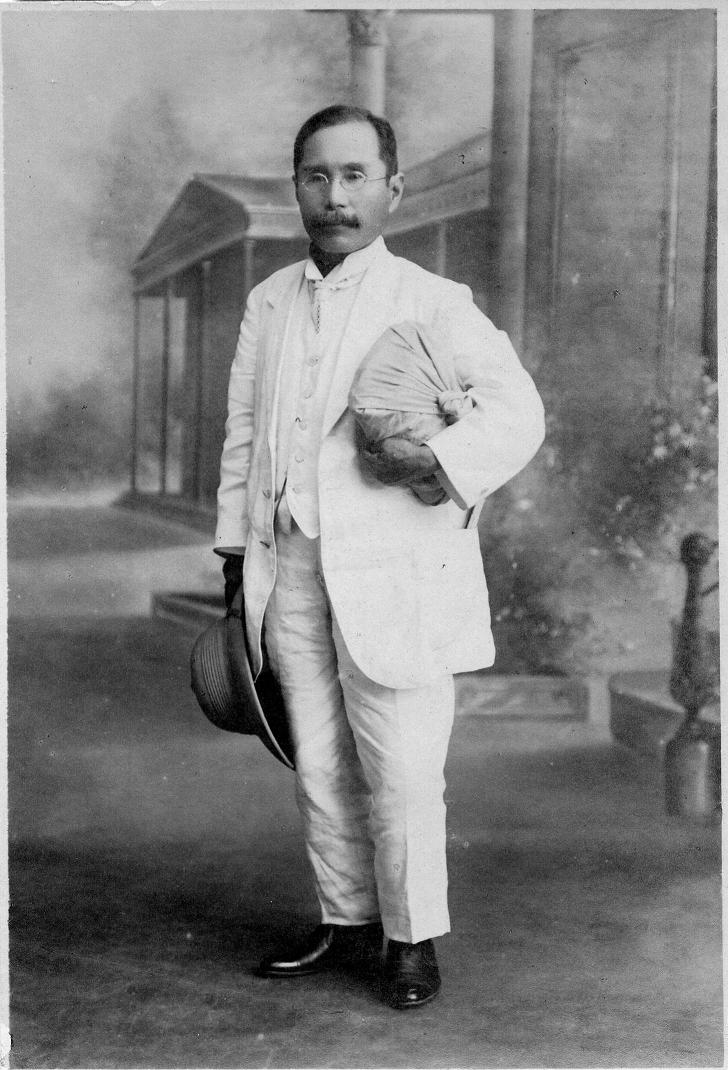 Fusatarō Ōhashi, 1860-1935, japanese politician from Osaka prefecture